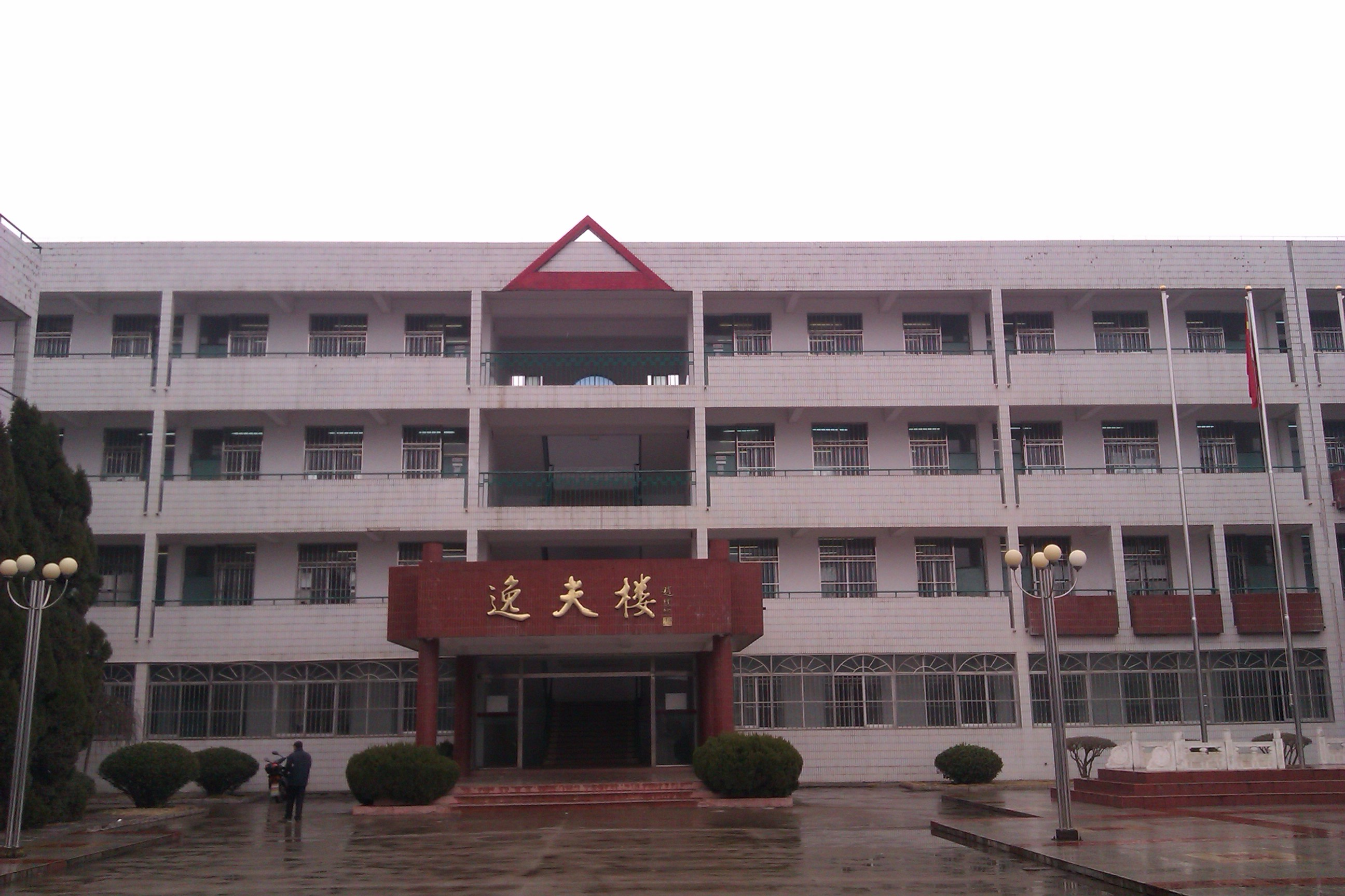 Yifu Teaching Building, Lujiang Middle School, AnHui Province